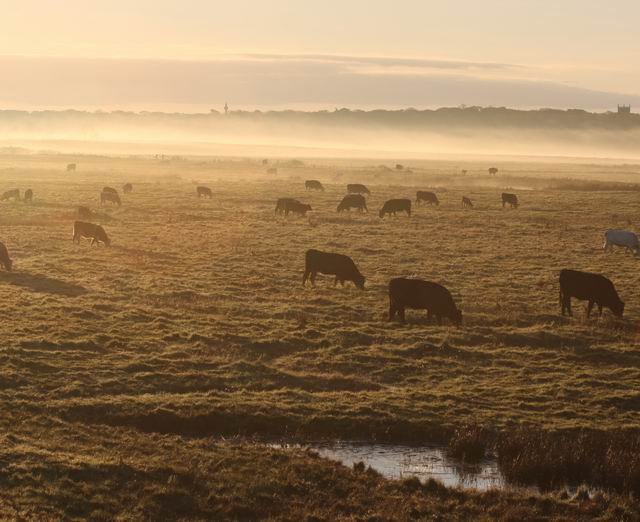 Grazing marsh The land inland from the dunes at Holkham has been reclaimed from saltmarsh to fresh marsh. It is a nature reserve with most areas grazed - some are arable. This end of the marshes is a wildfowling area, a couple of wildfowlers were out this morning, meaning that the sounds of the geese and ducks were occasionally interrupted by gunshots.